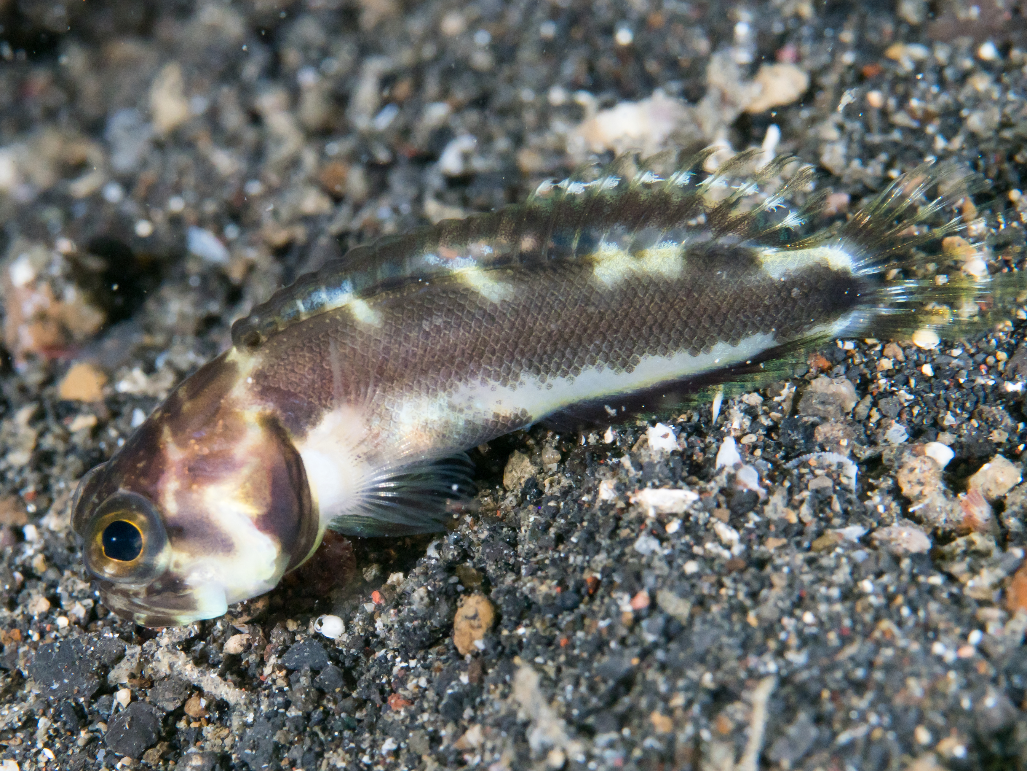 Lembeh, Indonesia - Harlequin jawfish (Stalix histrio)